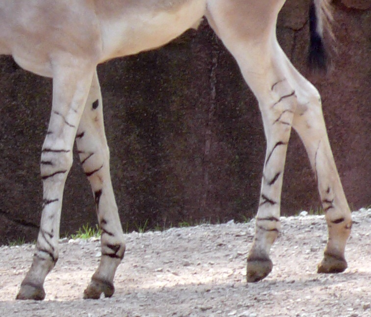 Somali Wild Ass (Equus africanus somalicus ) foal, closeup of legs